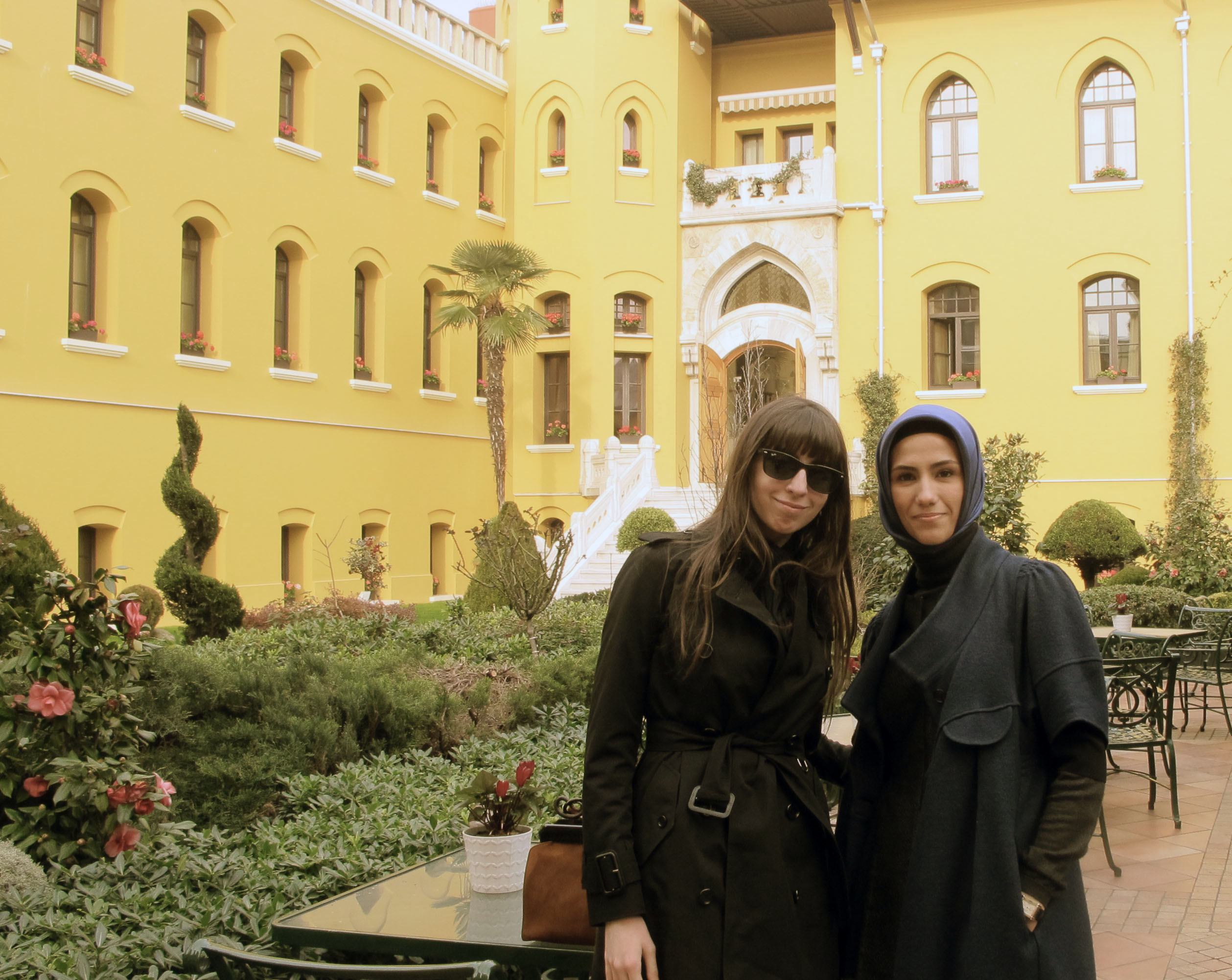 Daughter of Argentine President Cristina Kirchner, Florencia Kirchner and the daughter of Turkish Prime Minister Recep Tayyip Erdoğan, Sümeyye Erdoğan in Ankara, Turkey.